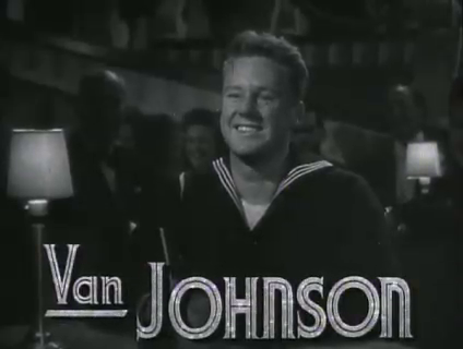 Van Johnson in Two Girls and a Sailor, by Richard Thorpe (1944)